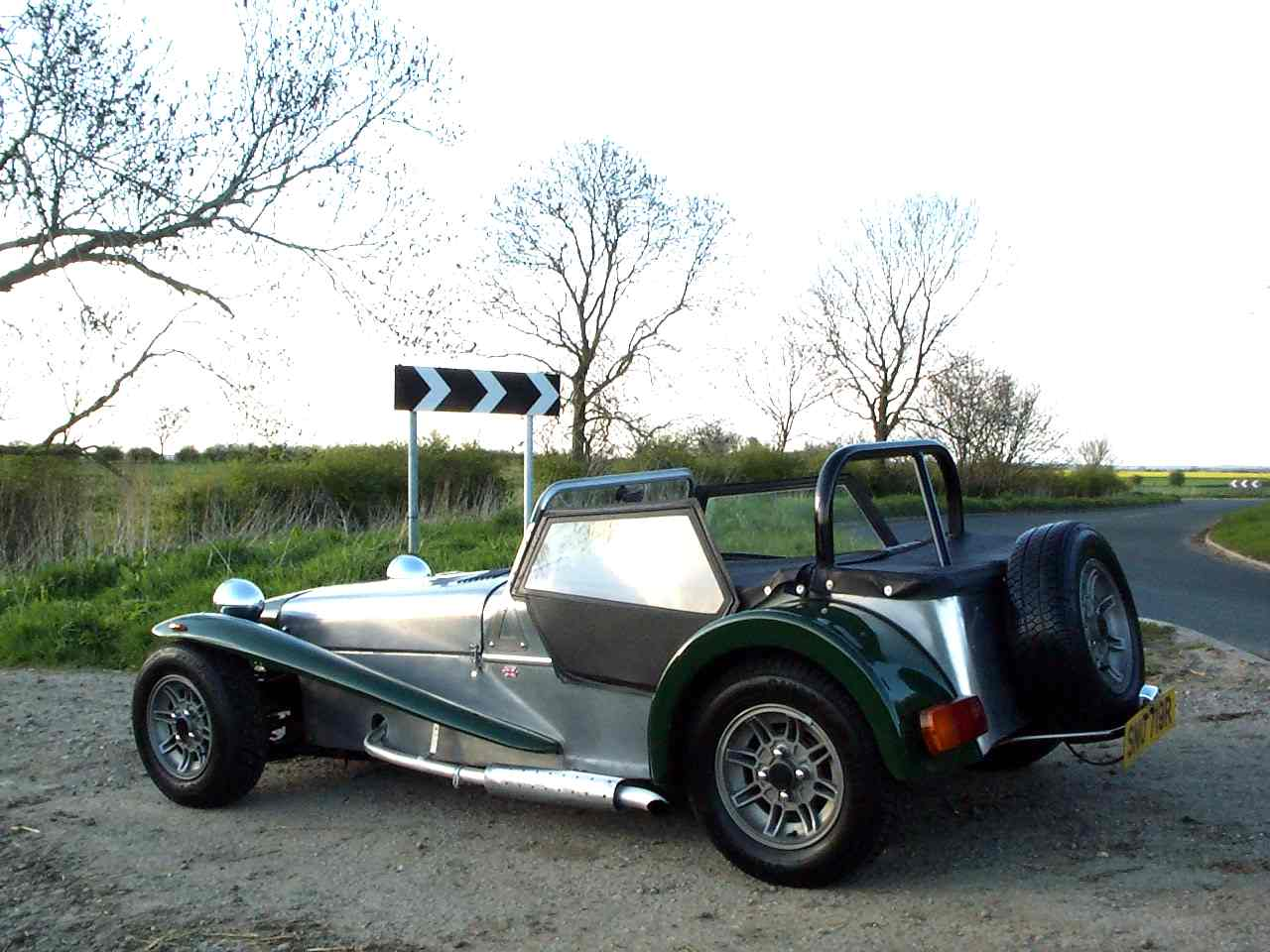 Locust Seven - Ford Based Original photograph taken by Peter Wannop